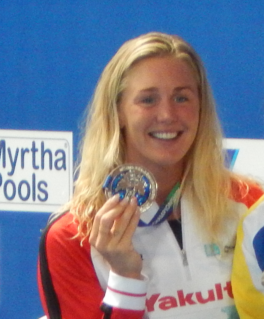 Jeanette Ottesen, silver medallists at the women's 100 metres butterfly in Kazan 2015